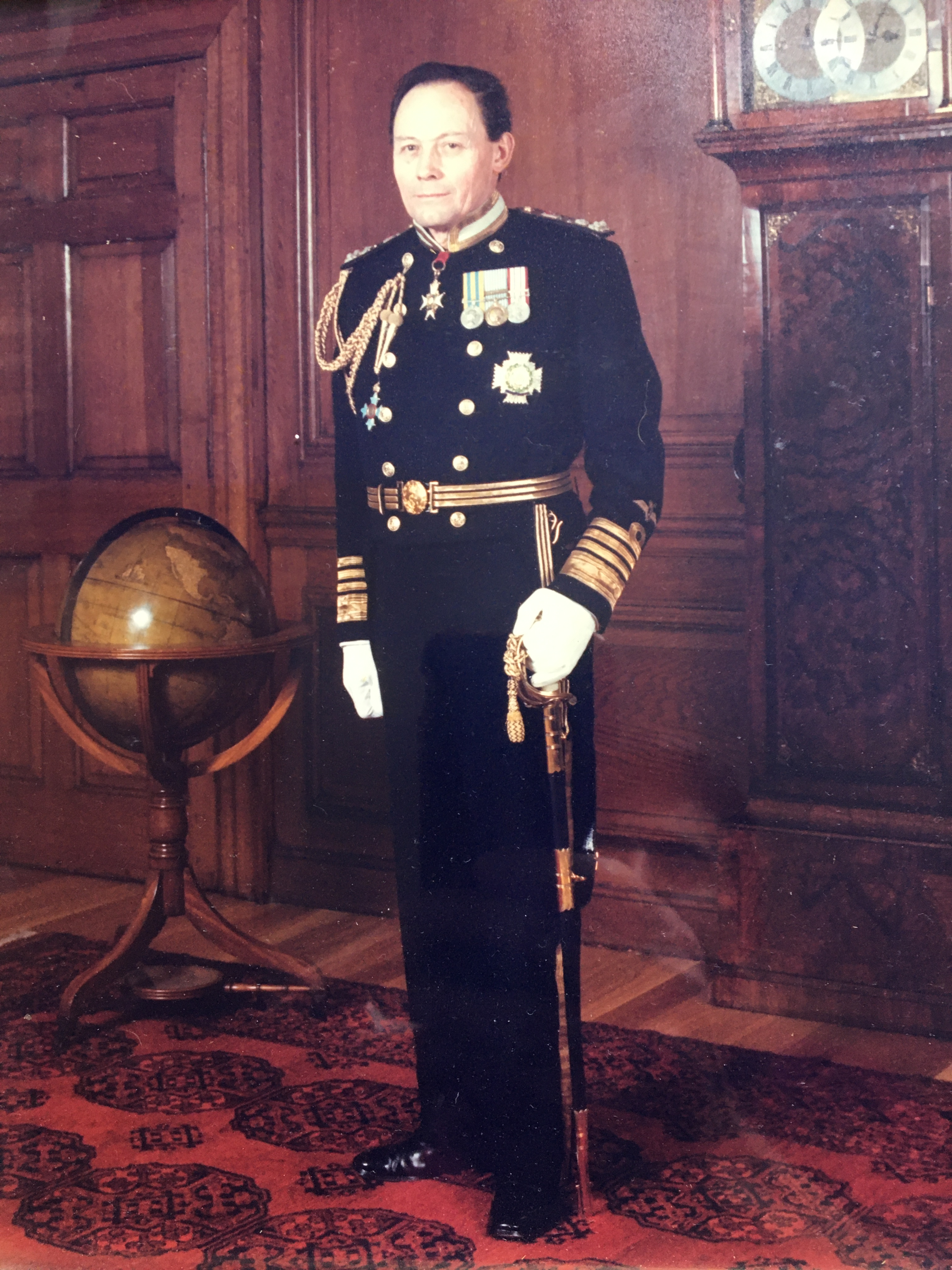 Brian Brown was knighted as a Knight Commander of the Order of the Bath on 17 June 1989 and on 26 August, he was promoted to admiral